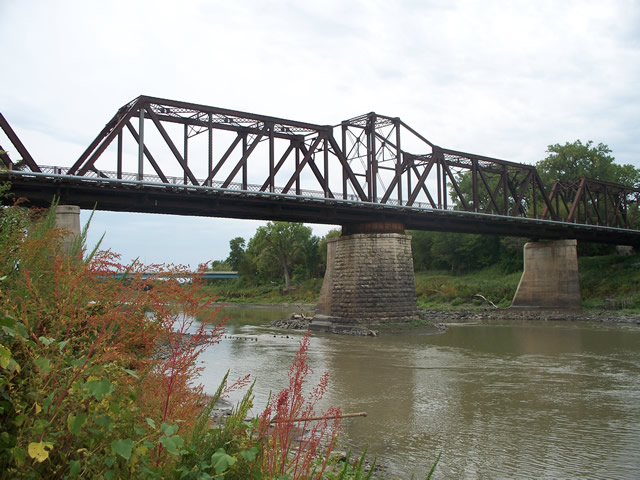 CN Railway bridge over the Red River at Emerson, Manitoba, near the Canada-United States border.